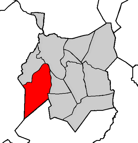 Location of the parish of Anceis in the municipality of Cambre (Galicia, Spain)